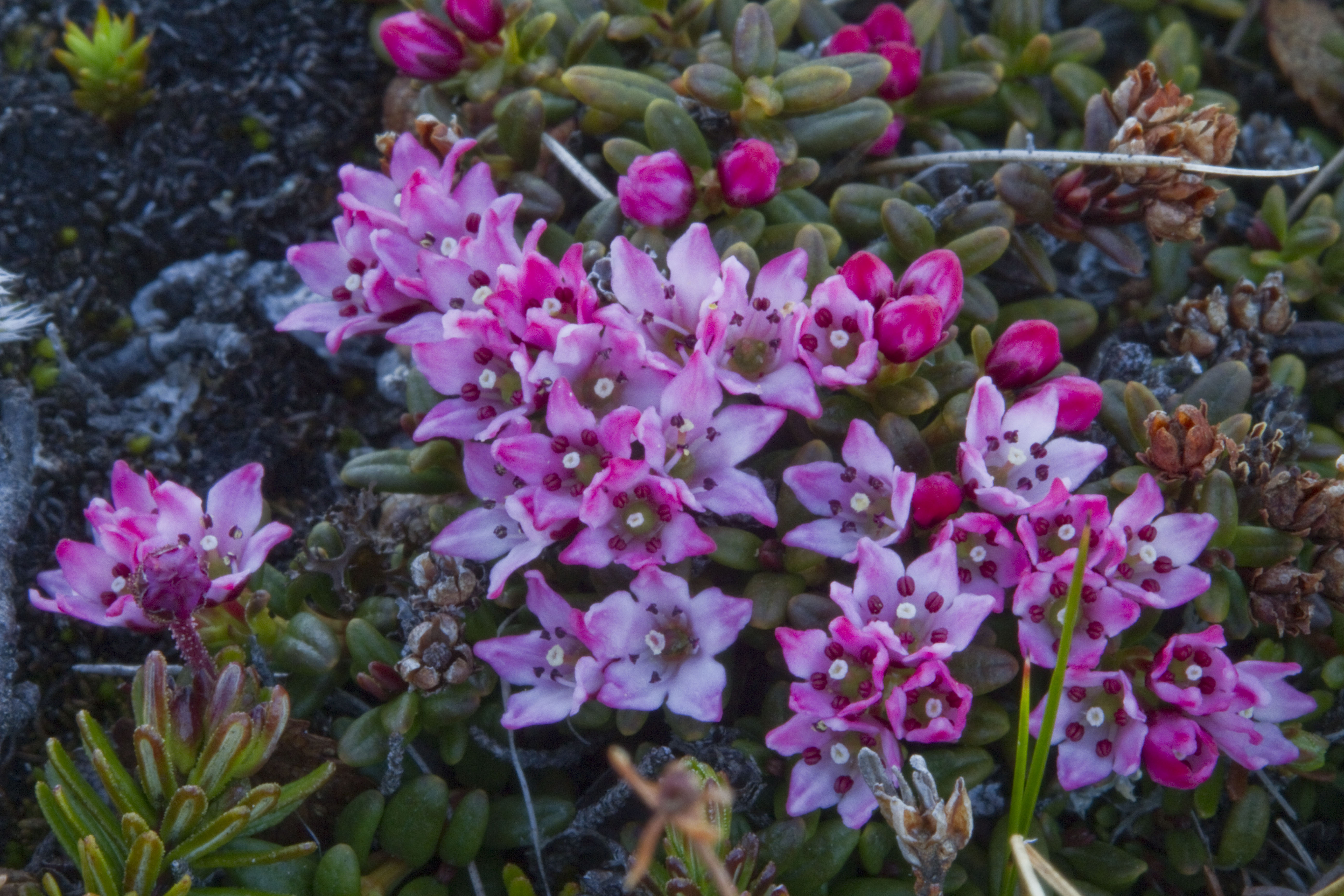 Alpine azalea, Abisko national park